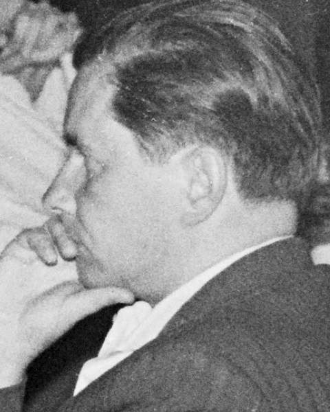 Paul Keres, European Championship 1961 at Oberhausen, Photographer Gerhard Hund.